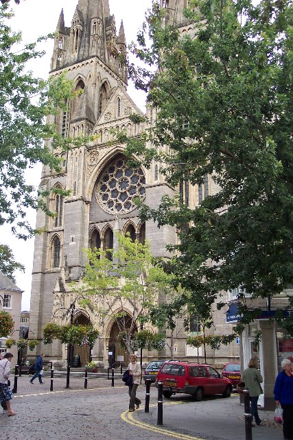 Truro Cathedral